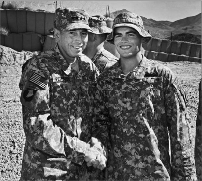 David and Stephen Petraeus in Afghanistan.